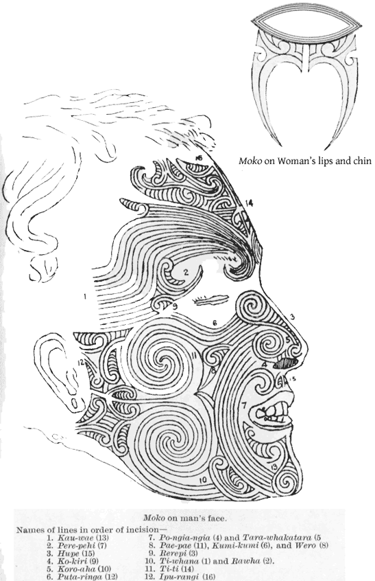 Maori Moko, scanned from John Rutherford: The White Chief (pre-1923)